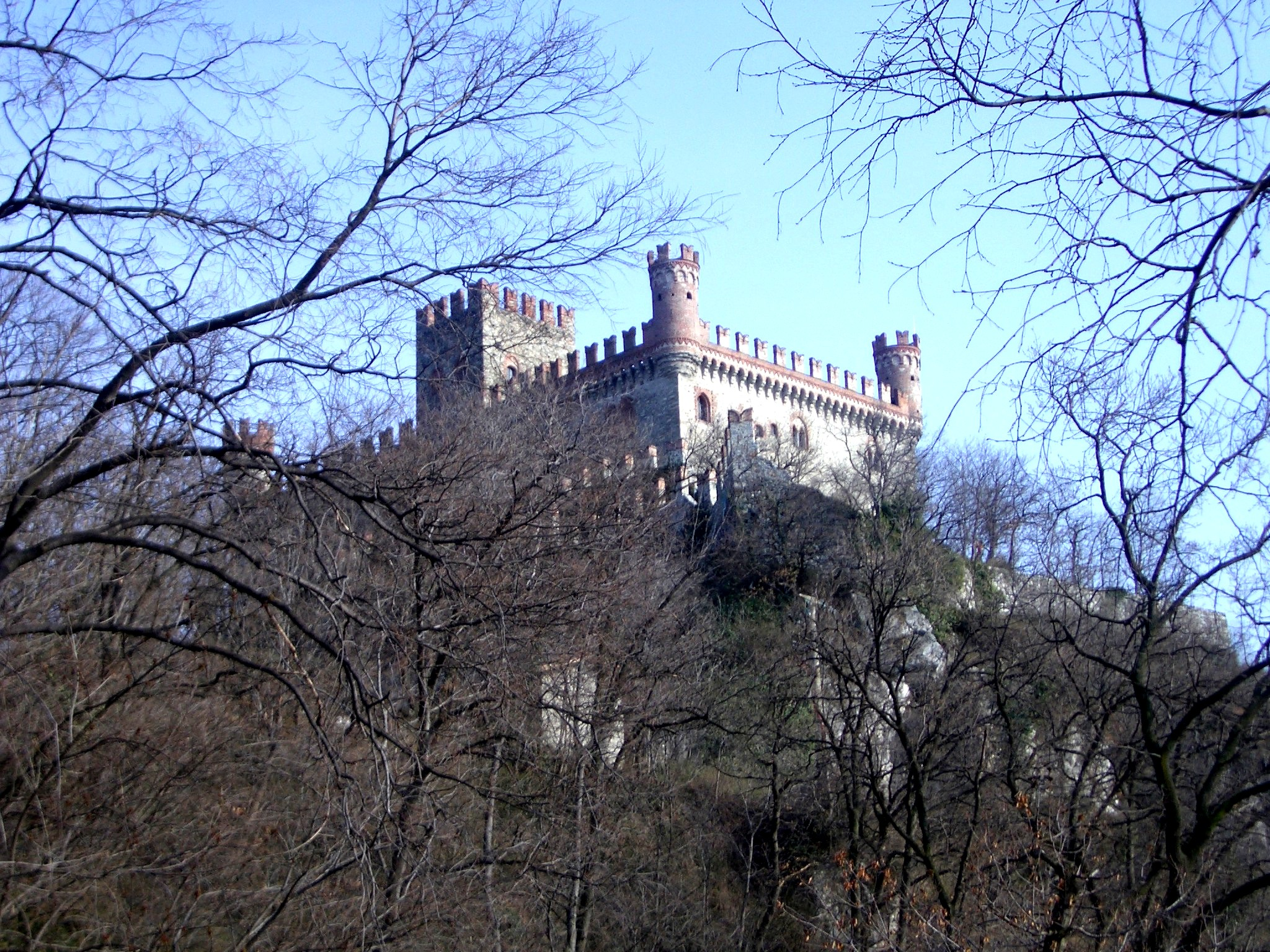 “The castle”, Montalto Dora, Turin, Italy